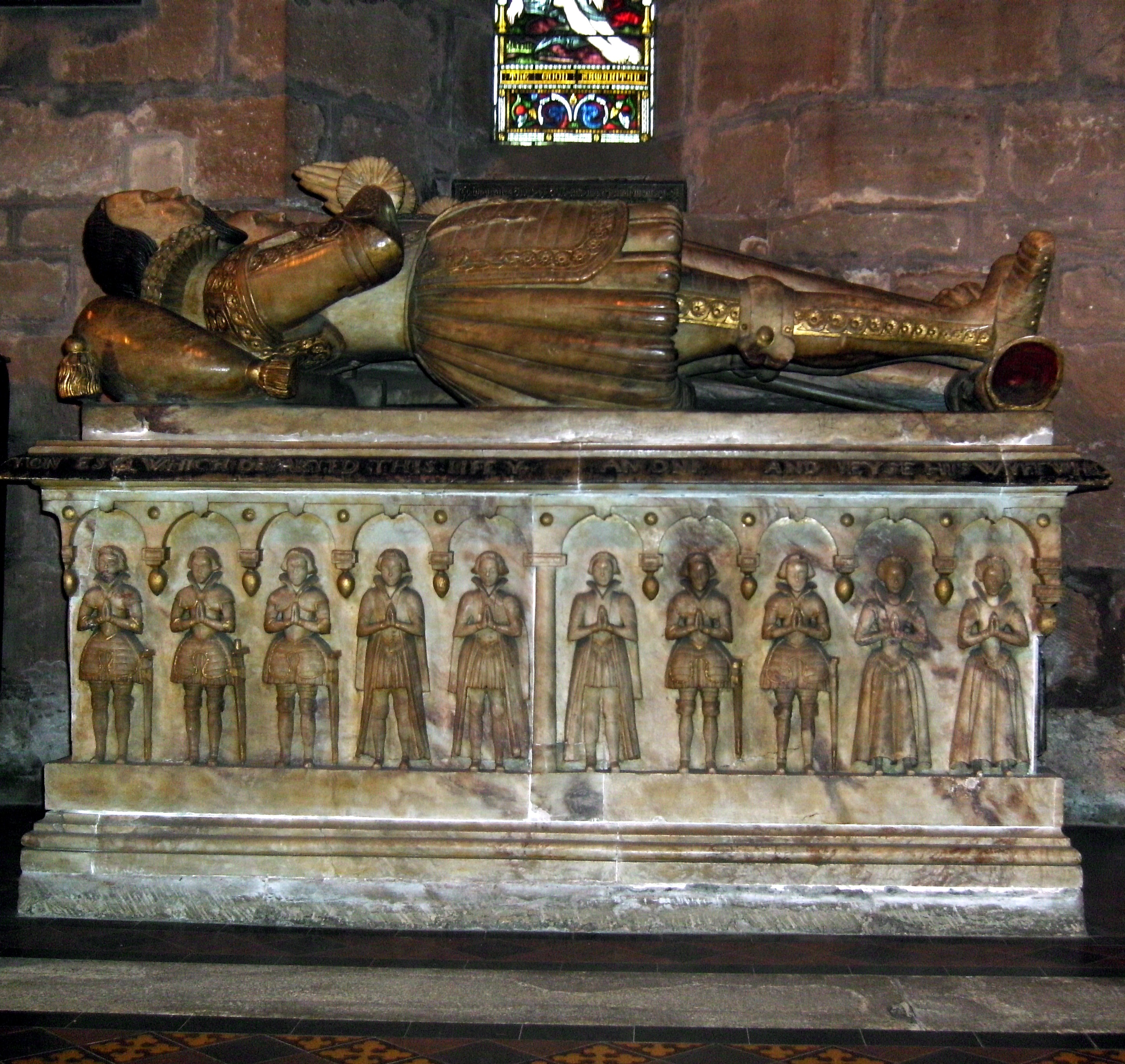 Tomb of John Giffard (d.1613), Elizabethan Recusant, and his wife, Joyce Leveson, in St Mary and St Chad church, Brewood, Staffordshire, England